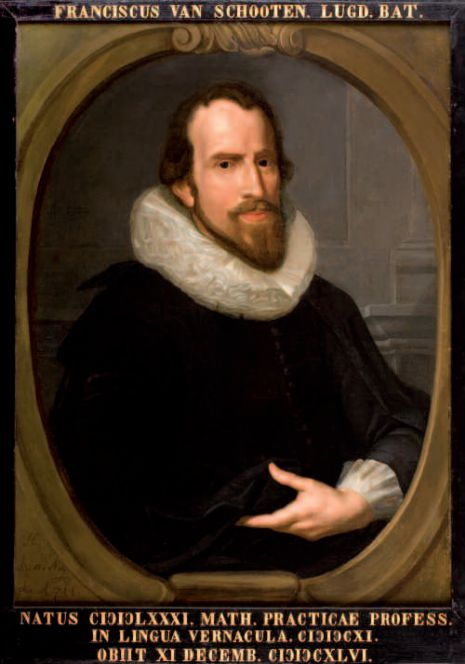 Frans van Schooten Sr. (1581-1645)